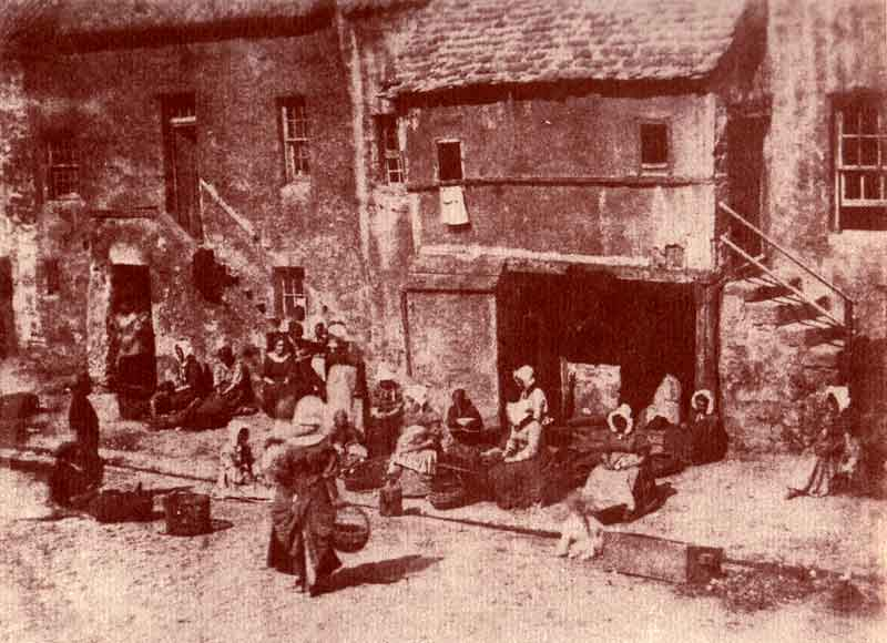 Fishwives in the Fishergate at St Andrews bait their lines: photograph by the pioneers of photography David Octavius Hill and Robert Adamson (photographer).